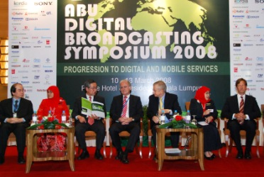 Speakers in the industry forum debate at the ABU Digital Broadcasting Symposium.